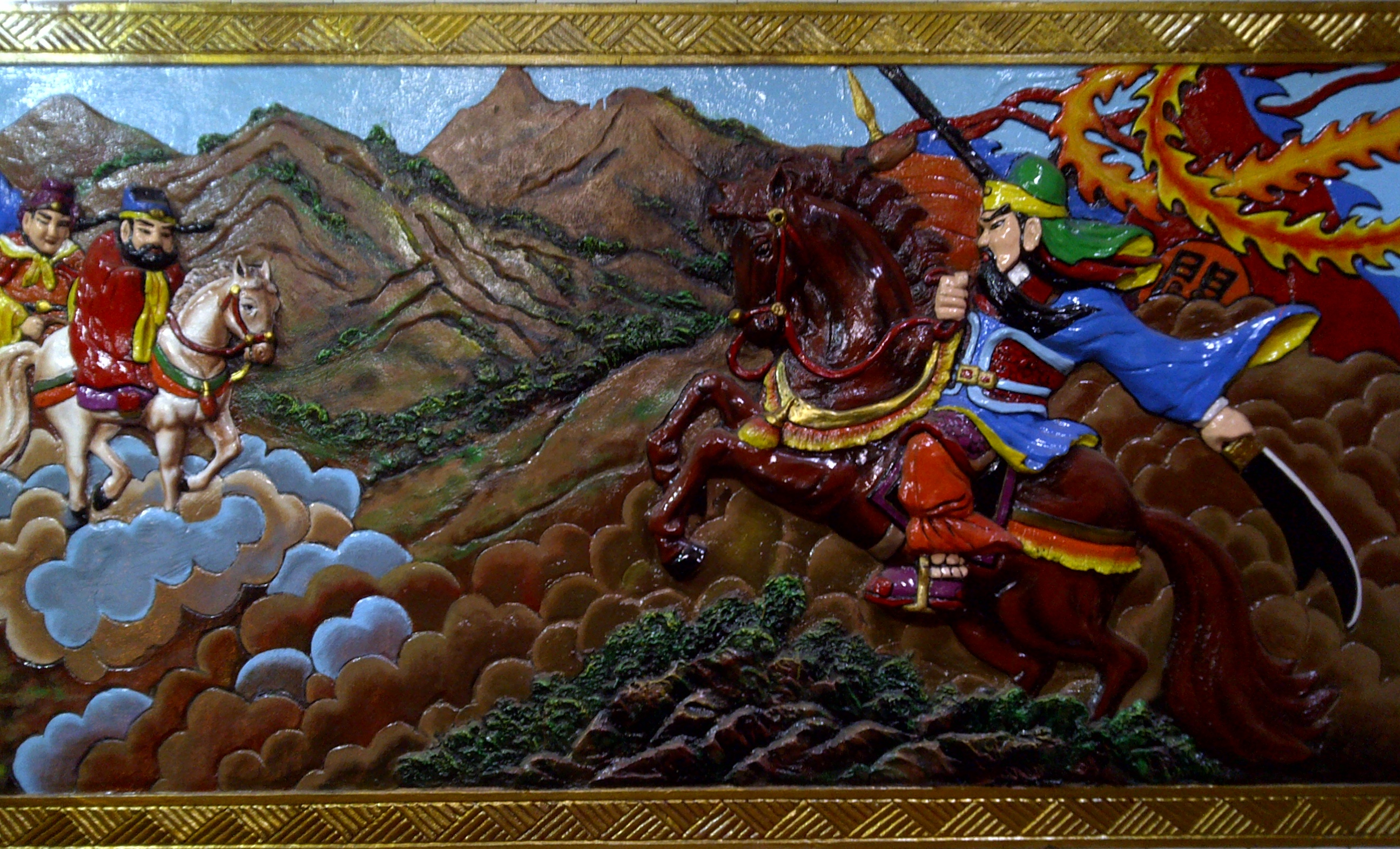 Diorama of Guan Yu at Hong San Koo Tee Temple, Surabaya, Indonesia